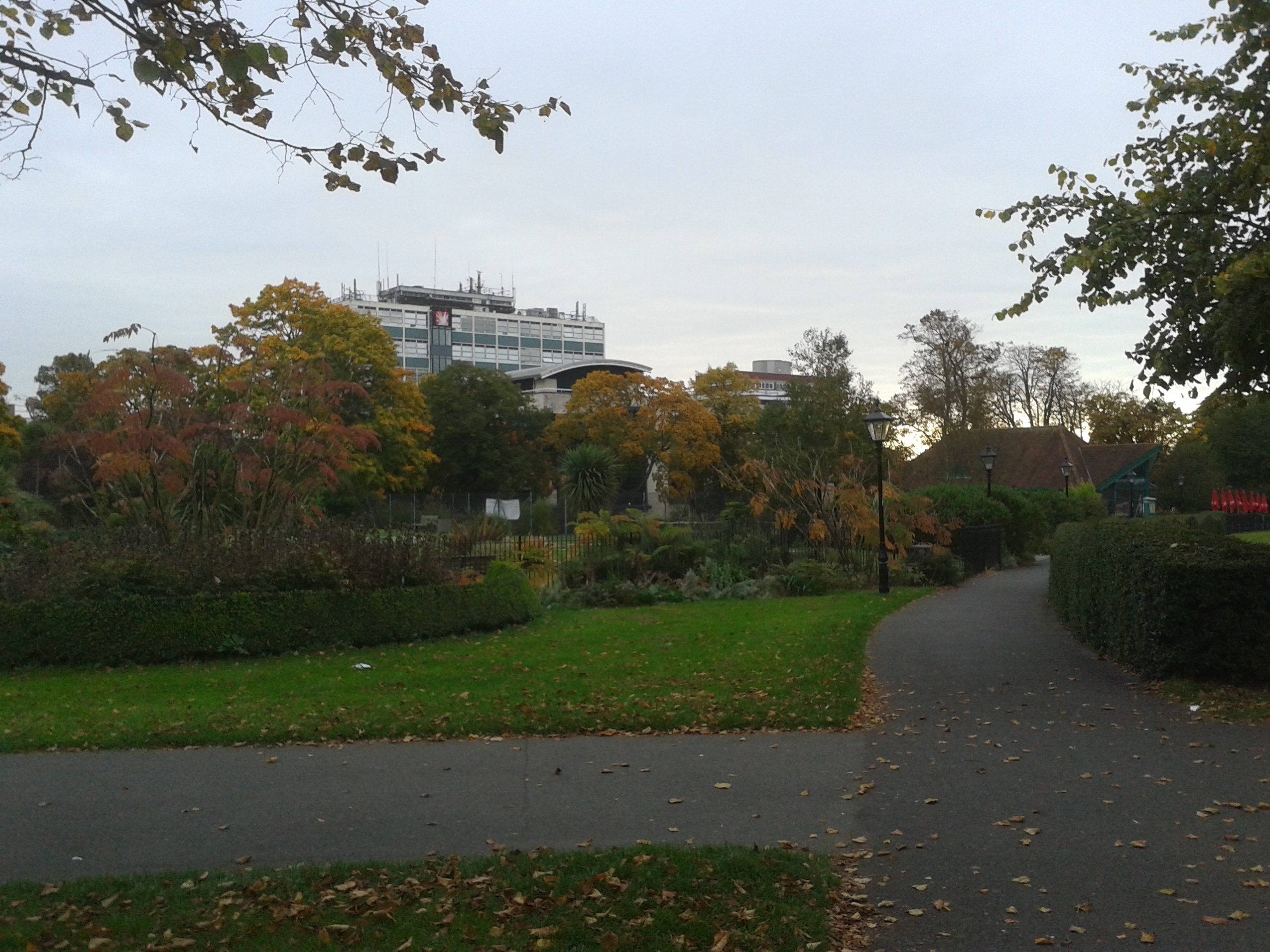 This is a photo of the East Park Terrace main campus of Southampton Solent university